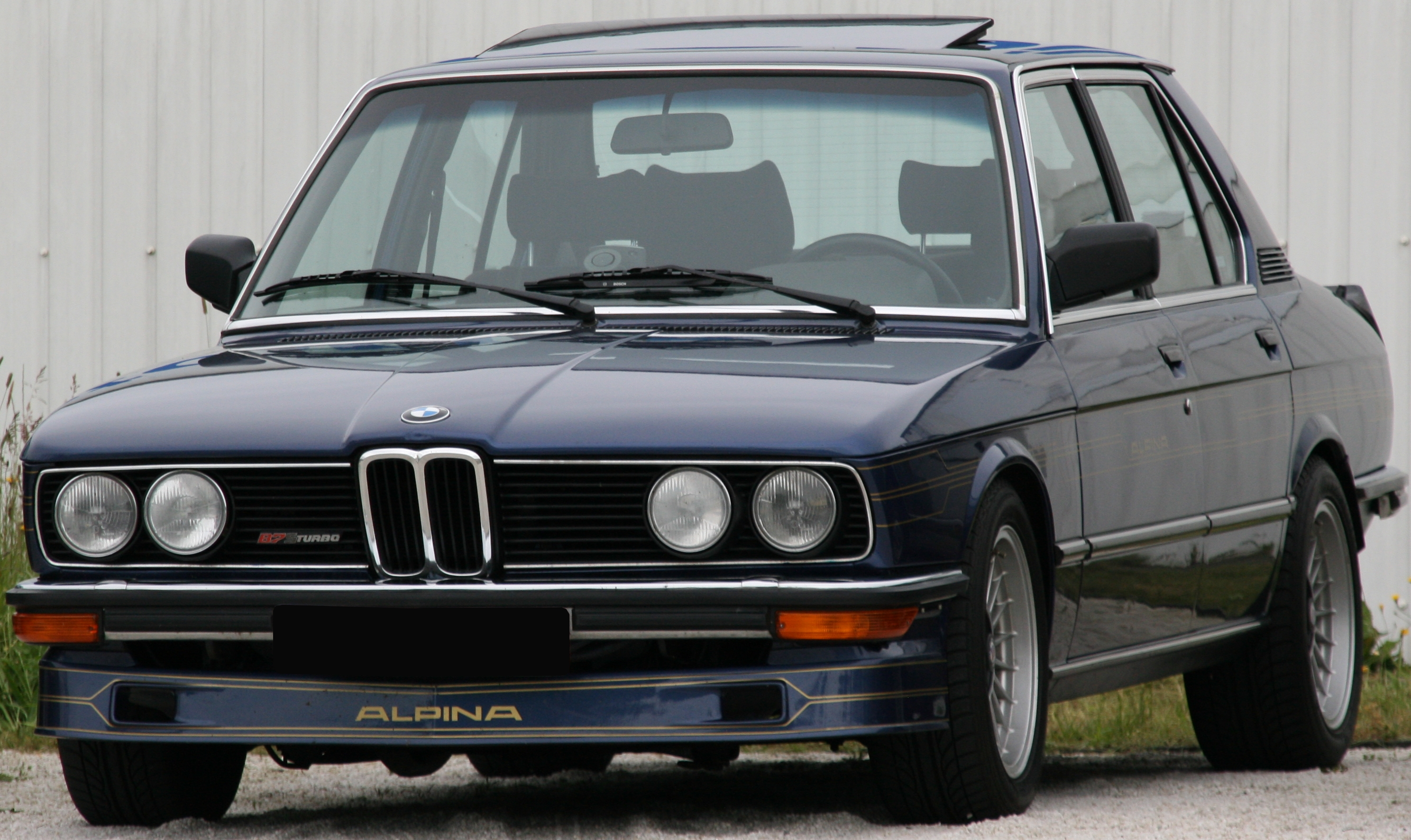 Alpina BMW E12 B7 S turbo